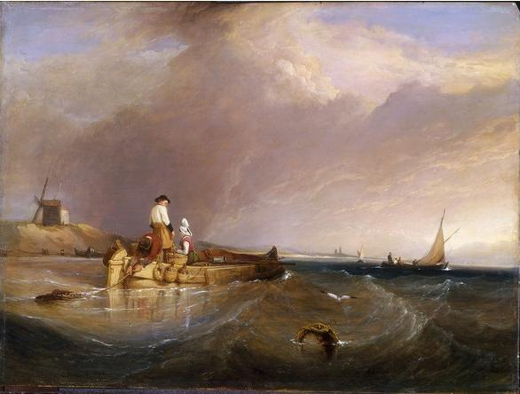 View on the Scheldt, 1826, Clarkson Frederick Stanfield V&A Museum no. 366-1901 Techniques - oil on panel Dimensions - Height 40.7 cm (estimate), Width 54.3 cm (estimate), Height 62 cm (framed), Width 76 cm (framed) Object Type - Oil paintings of seascapes and shipping in the Dutch manner were collected in Britain from the 17th century when the Dutch started making them in quantity. British artists also painted similar scenes to meet the demand from collectors. This painting is a smaller version of `A market boat on the Scheldt' painted by Stanfield in the same year (1826), although the colouring is more subdued and its tones are closer to a 17th-century Dutch example. Places - The river Scheldt was a favourite locality for Dutch marine painters for centuries. It runs from northern France, through Belgium and into the North Sea. Stanfield shows a scene near the mouth of the river. People - Clarkson Stanfield was a painter in oils and watercolours, mainly of landscapes and marine views. The son of an actor, J. F. Stanfield, he went to sea as a young boy and was press-ganged into the Royal Navy, but he left the service after being injured. He painted stage scenery for theatres in London, where he was a friend and rival to David Roberts. Stanfield also made dioramas and panoramas. His subjects for theatrical, easel and illustrative work were drawn mainly from extensive tours in Britain and Europe